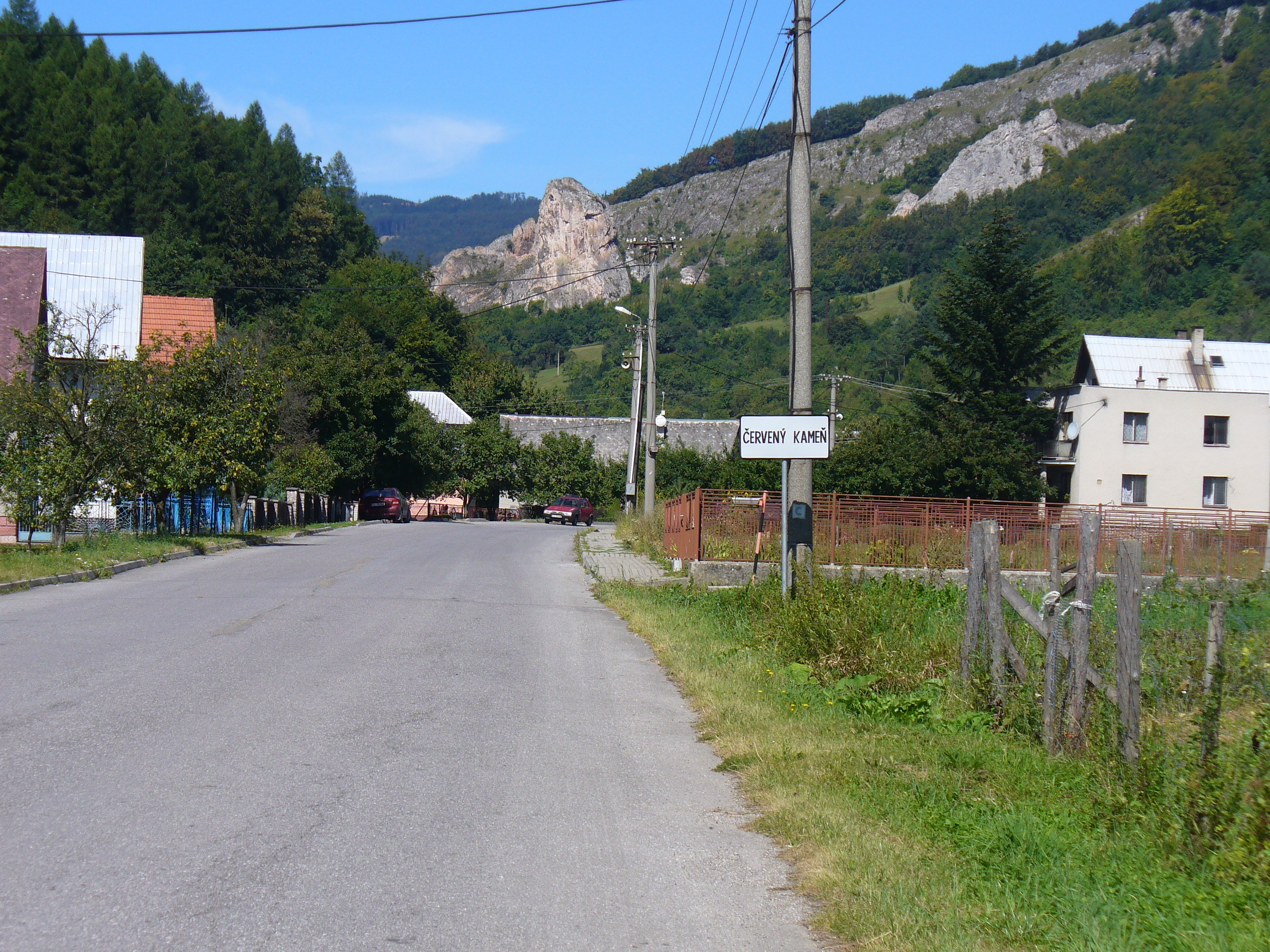 Vstup do obce